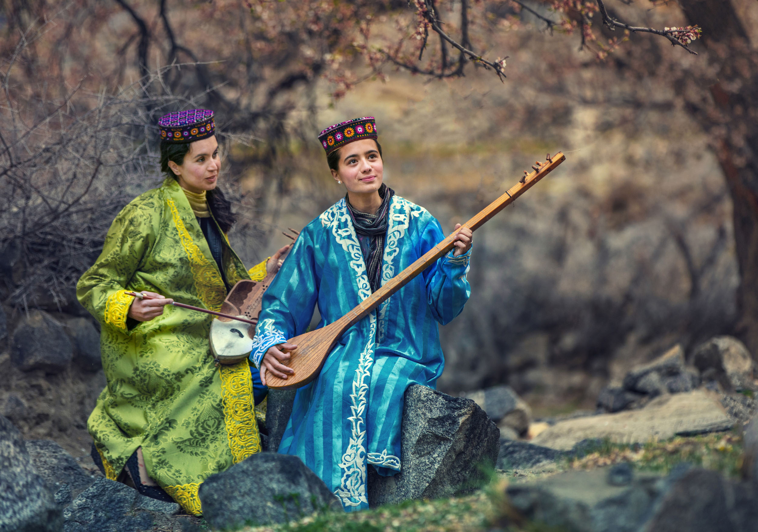 The art of cultural Wakhi Music sustains its heritage Gulmit, Gilgit Baltistan